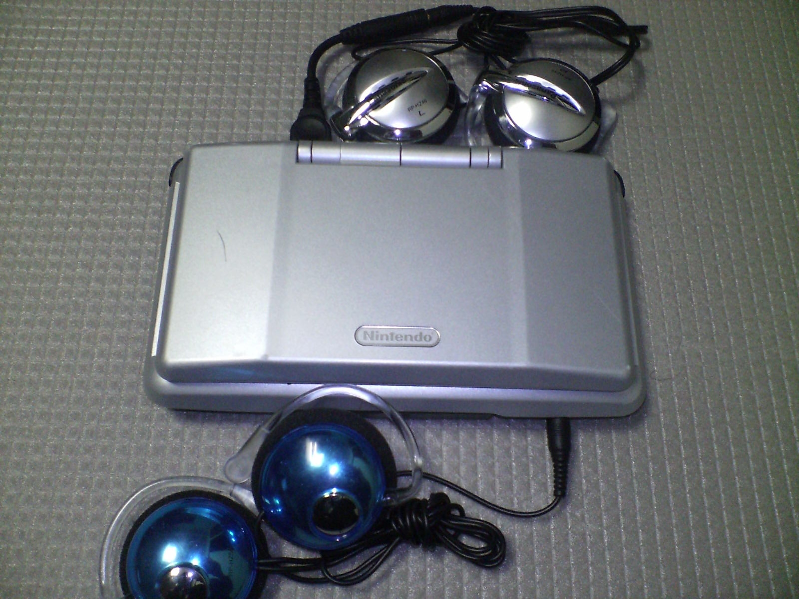 Nintendo DS(closed) with 2 headphons connection (The first is connected on usual headphone port, and another is connect on power supply port with Headphone adapter for Game Boy Advance SP)